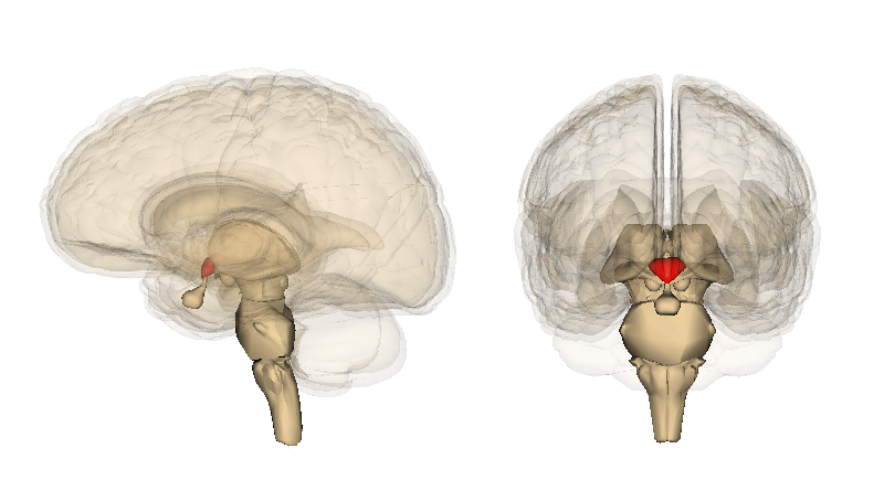 hypothalamus. Images are from Anatomography maintained by Life Science Databases(LSDB).